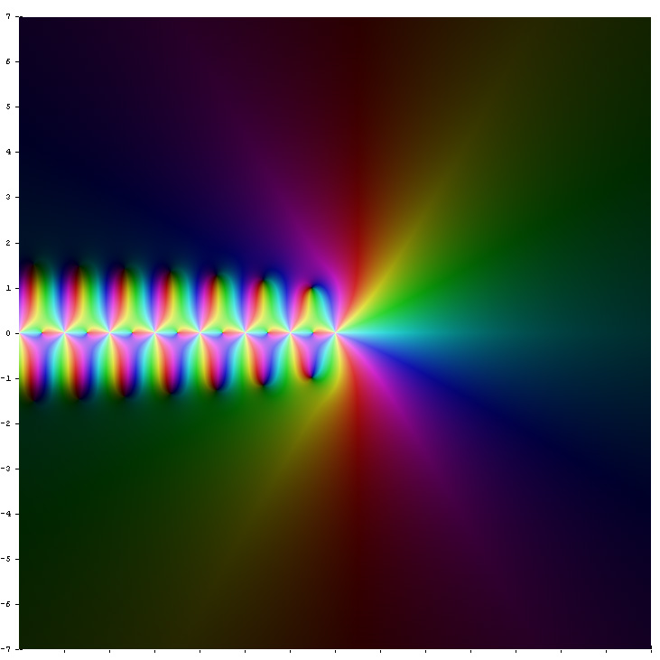 function PolyGamma[2,z] in the complex plane